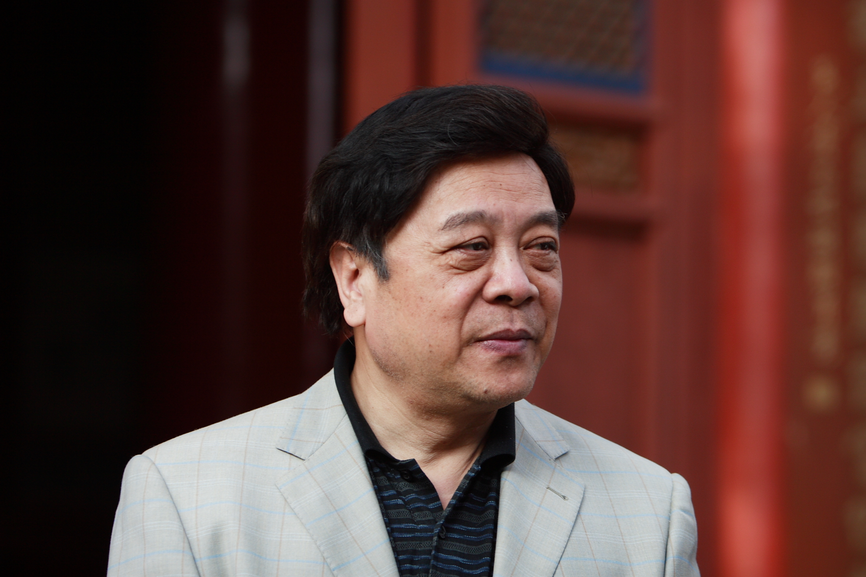 Zhao Zhongxiang, a famous commentator in China.